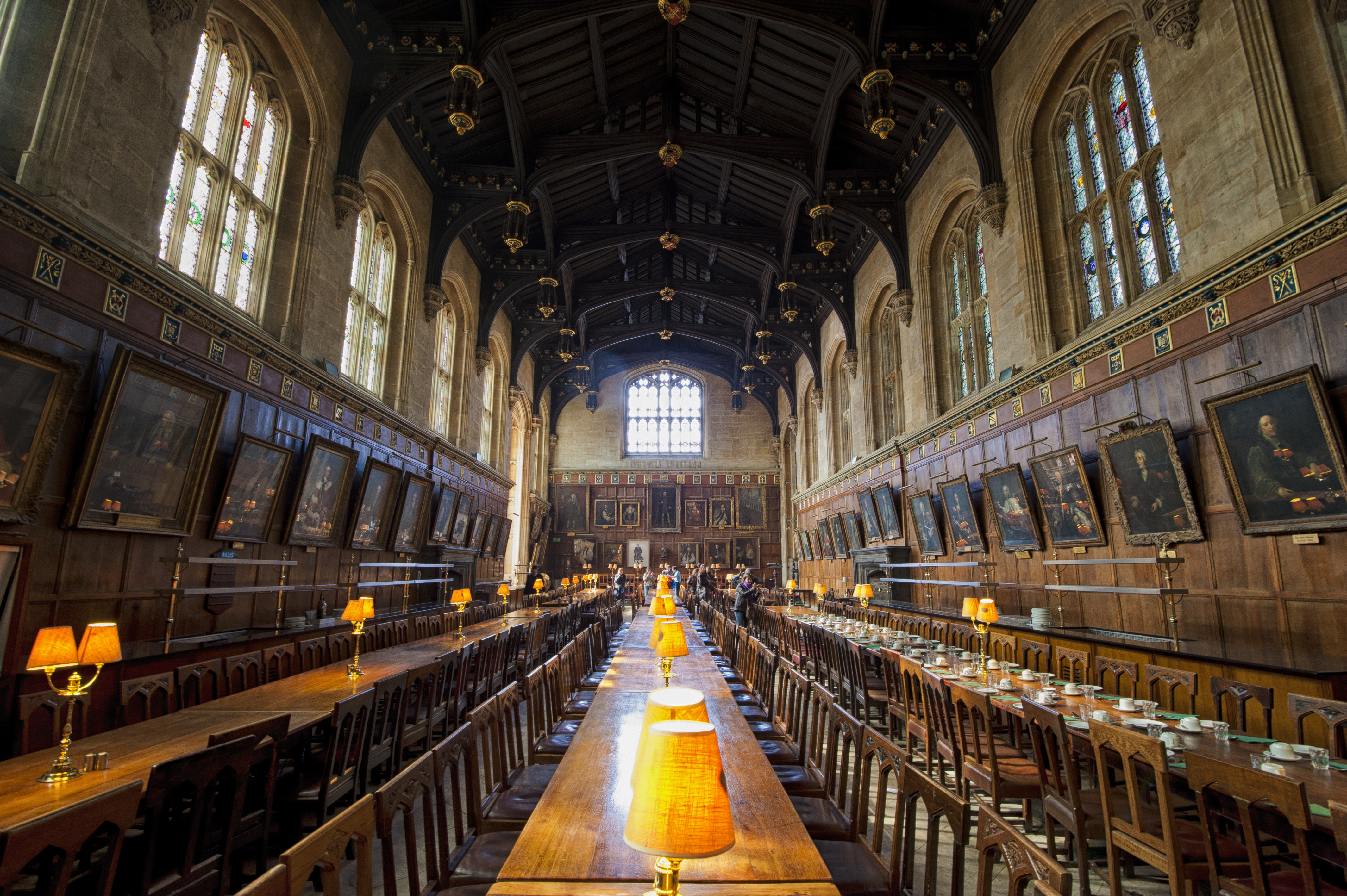 Christ Church hall oxford university 2012